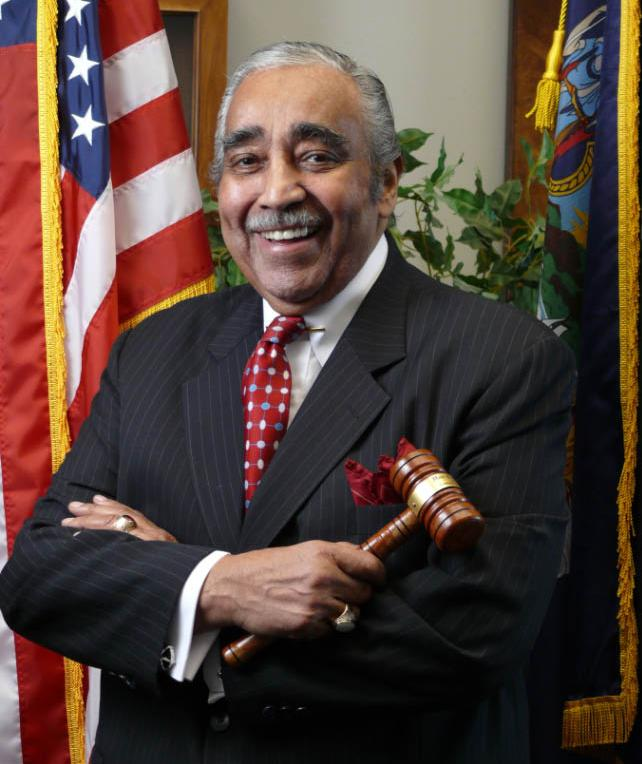 U.S. Congressman Charles B. Rangel's Head Shot, CBR CHAIRMAN 1, as Chairman of the U.S. House of Representatives Ways and Means Committee.